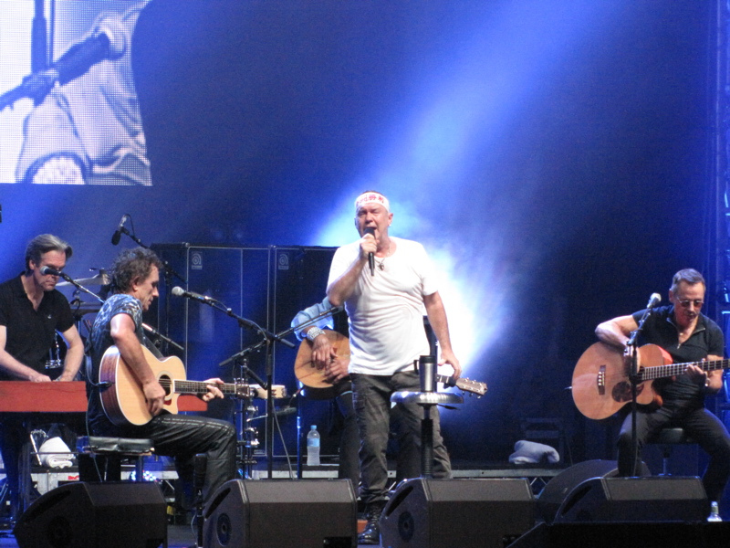 Cold Chisel performing on their "Light the Nitro" tour in 2011, bar the late Steve Prestwich.